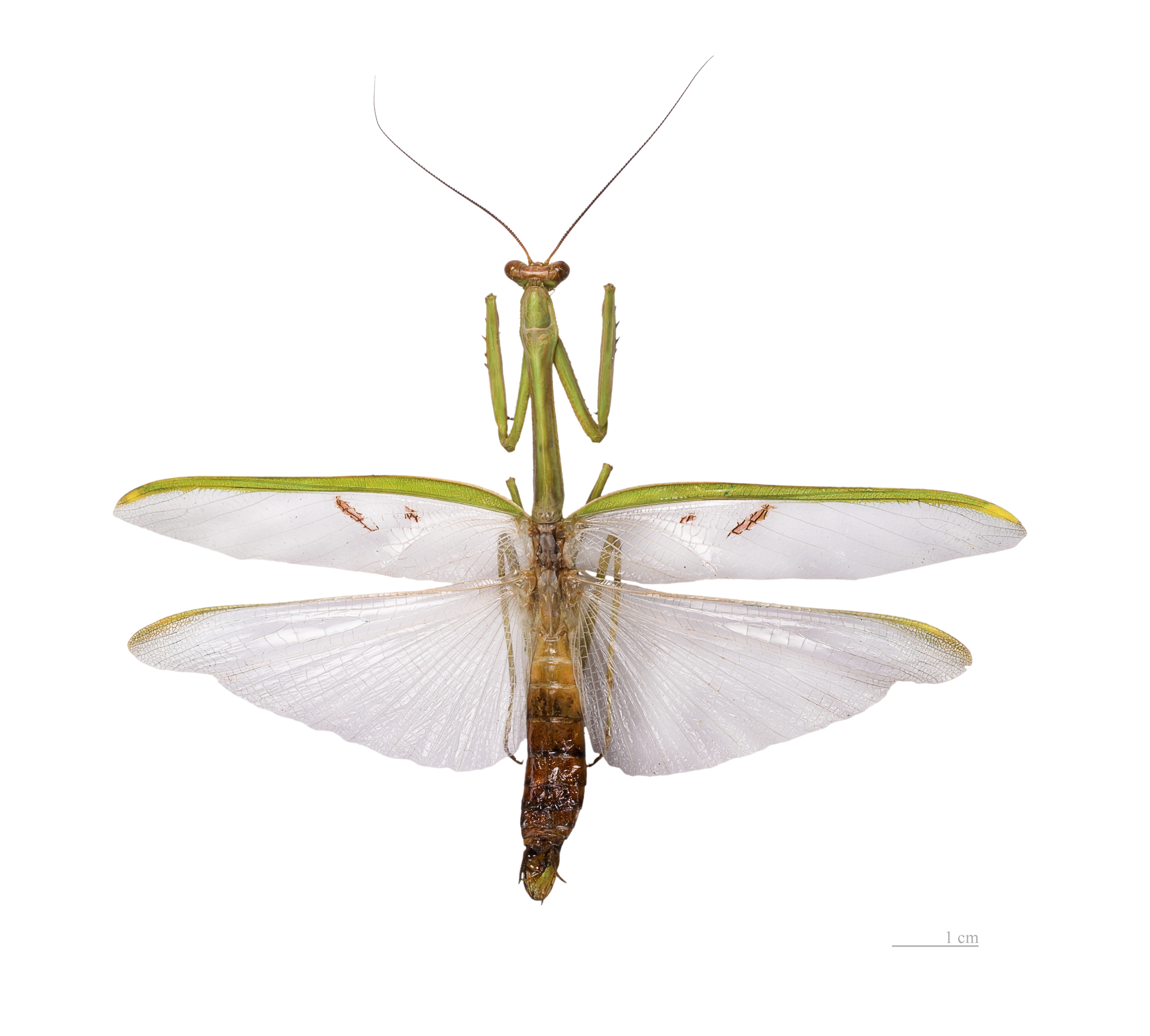 ♂ Flying position Locality : Route National 2, PK79, French Guiana